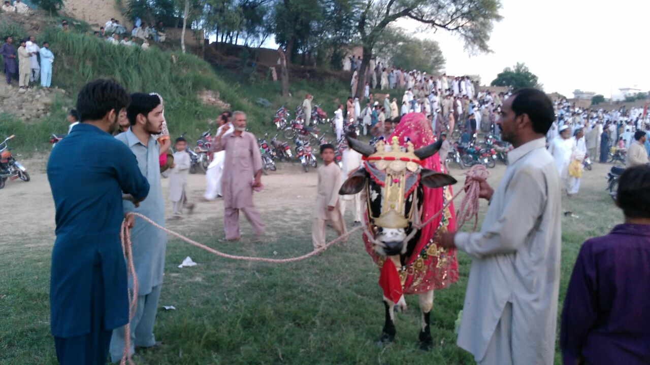 Bull which are participating in Festival.